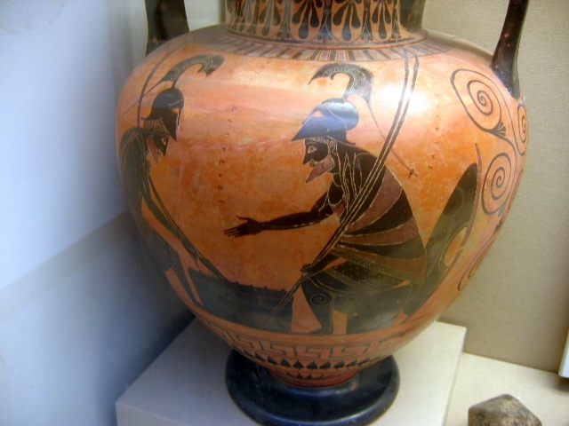 British Museum, London